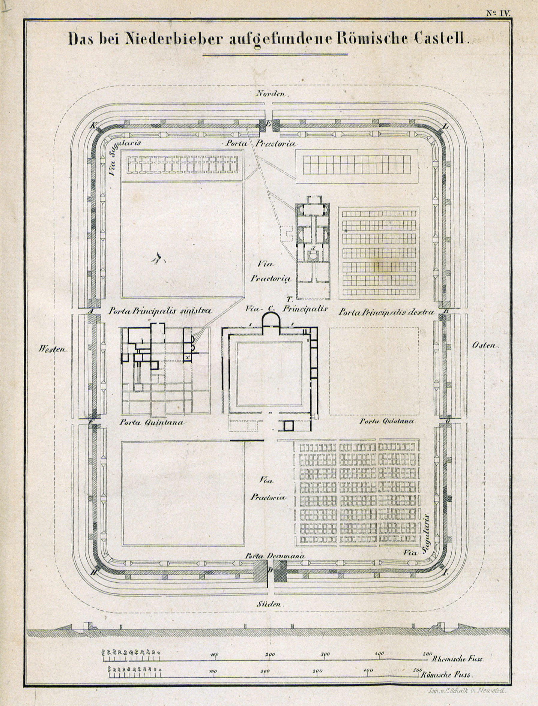 Page 251 of Die Stadt Neuwied chorographisch beschrieben ...